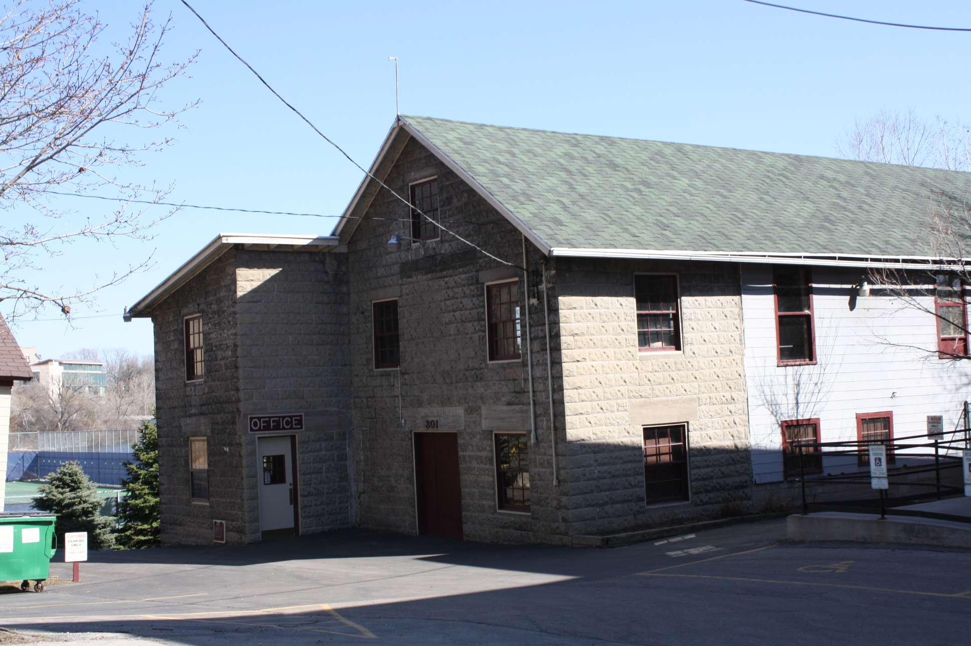 The J. B. Courtney Woolen Mills, listed on the National Register of Historic Places.